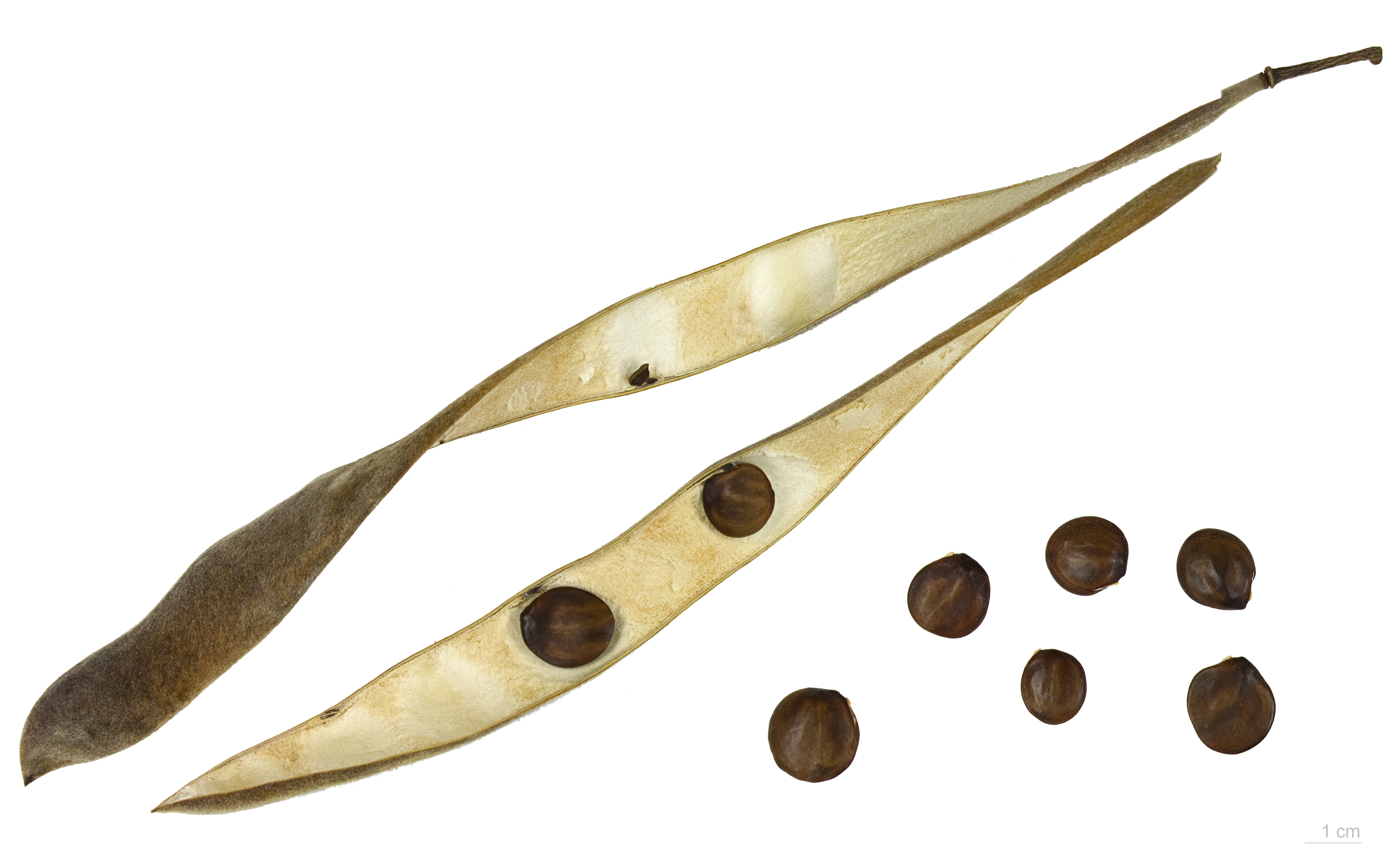 Japanese wisteria , fruits and seeds